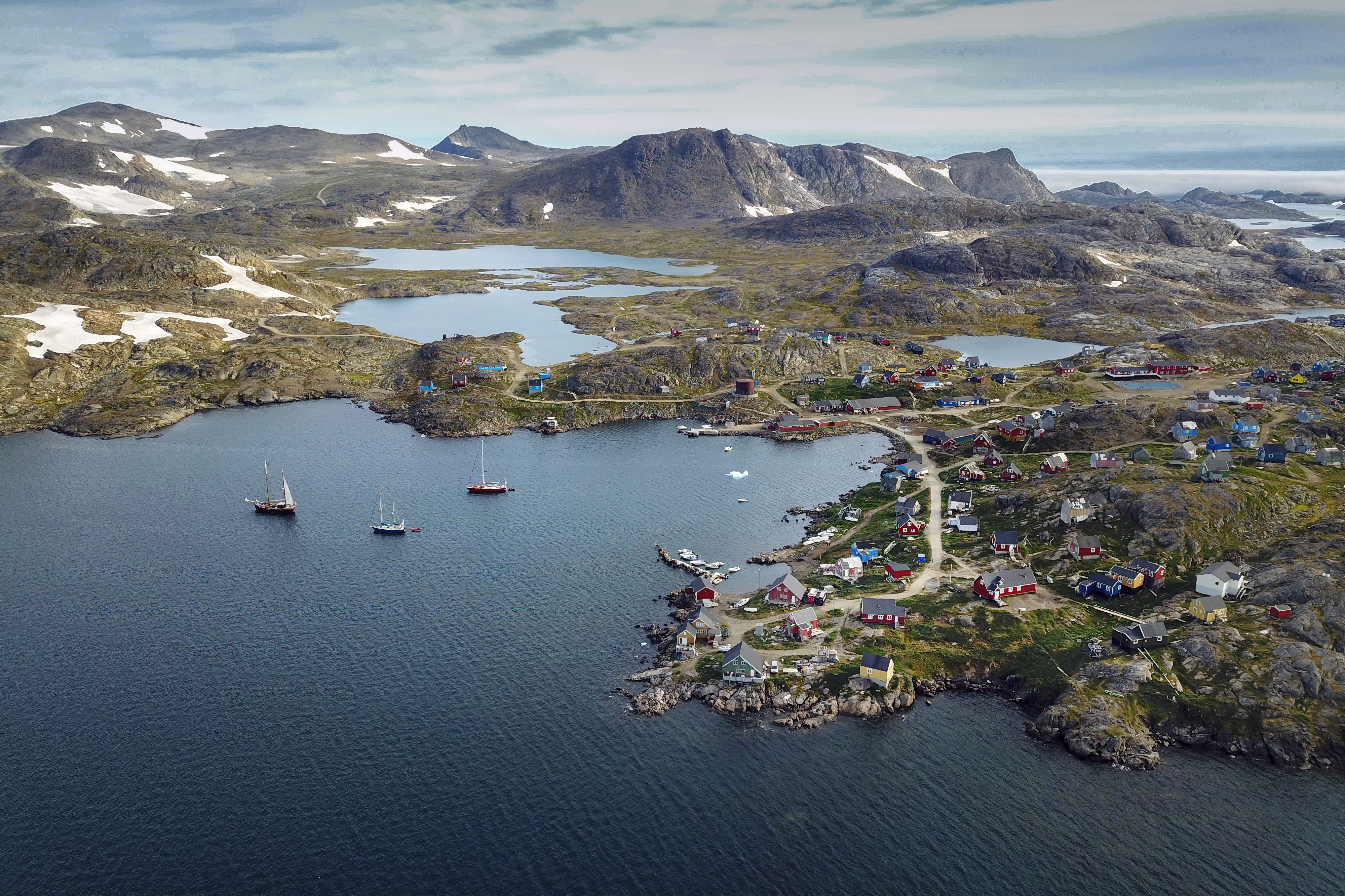 Kulusuk, Greenland by Christopher Michel